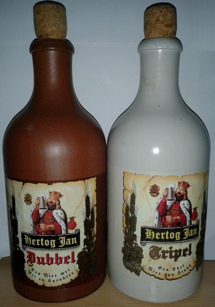 Hertog Jan Dubbel & Tripel (.50 liter jug, old design)